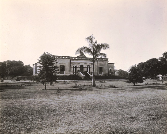 Photograph taken by Fritz Kapp in 1904 in Dacca (now Dhaka), part of an album of 30 prints from the Curzon Collection. View of a single storey building designed in the European style in the Nawab's Dilkusha Garden in the Motijheel region of Dhaka.